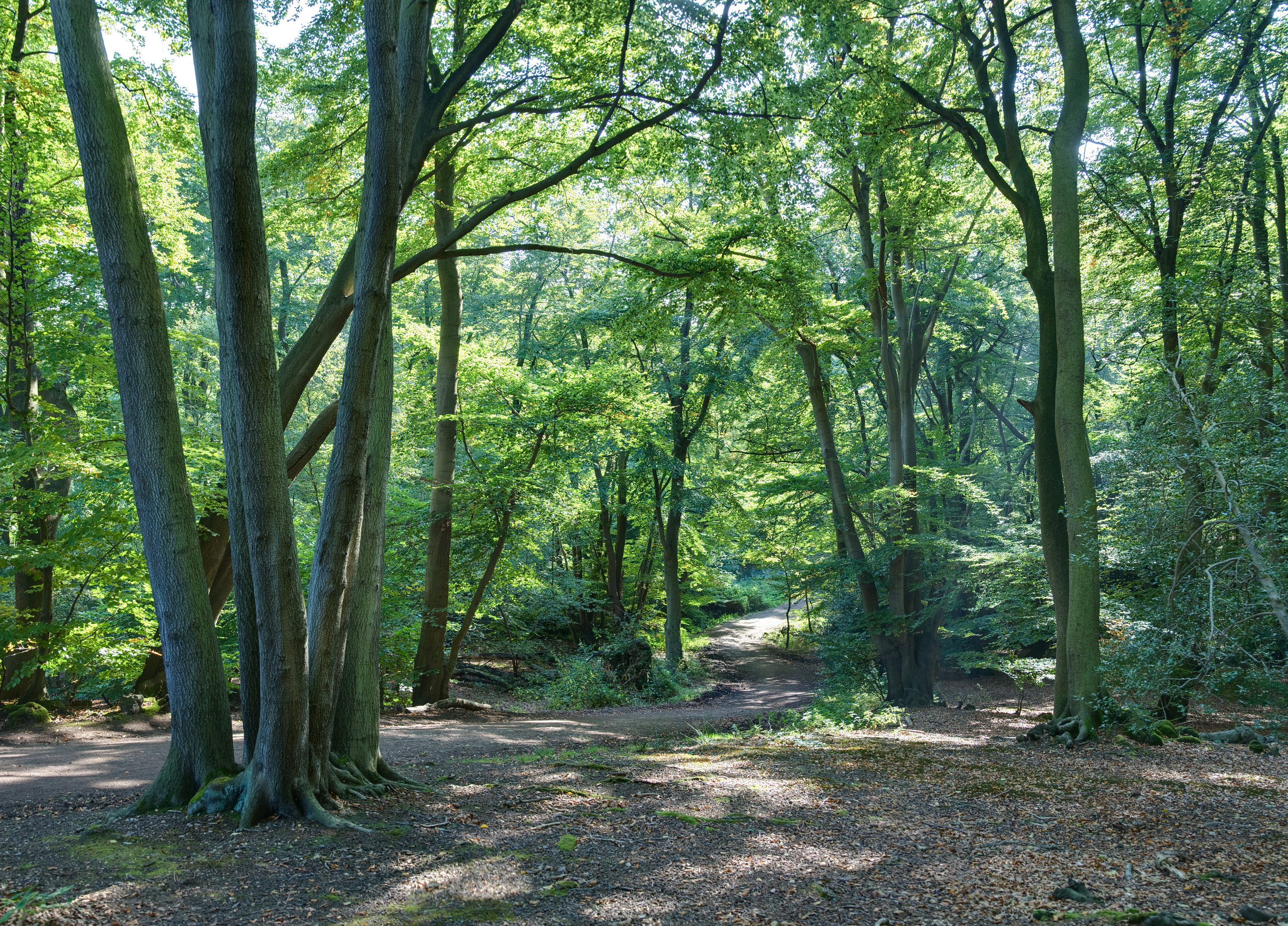 The trail of the Centenary Walk in Epping Forest, south of High Beach, Essex - England. Taken by myself with a Canon 5D and 24-105mm f/4L IS lens.